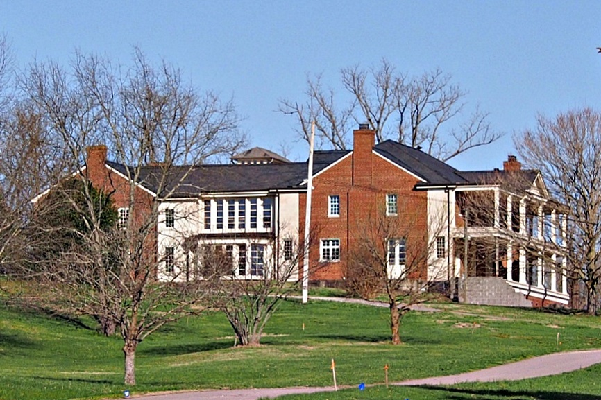 located just north of Thompsons Station